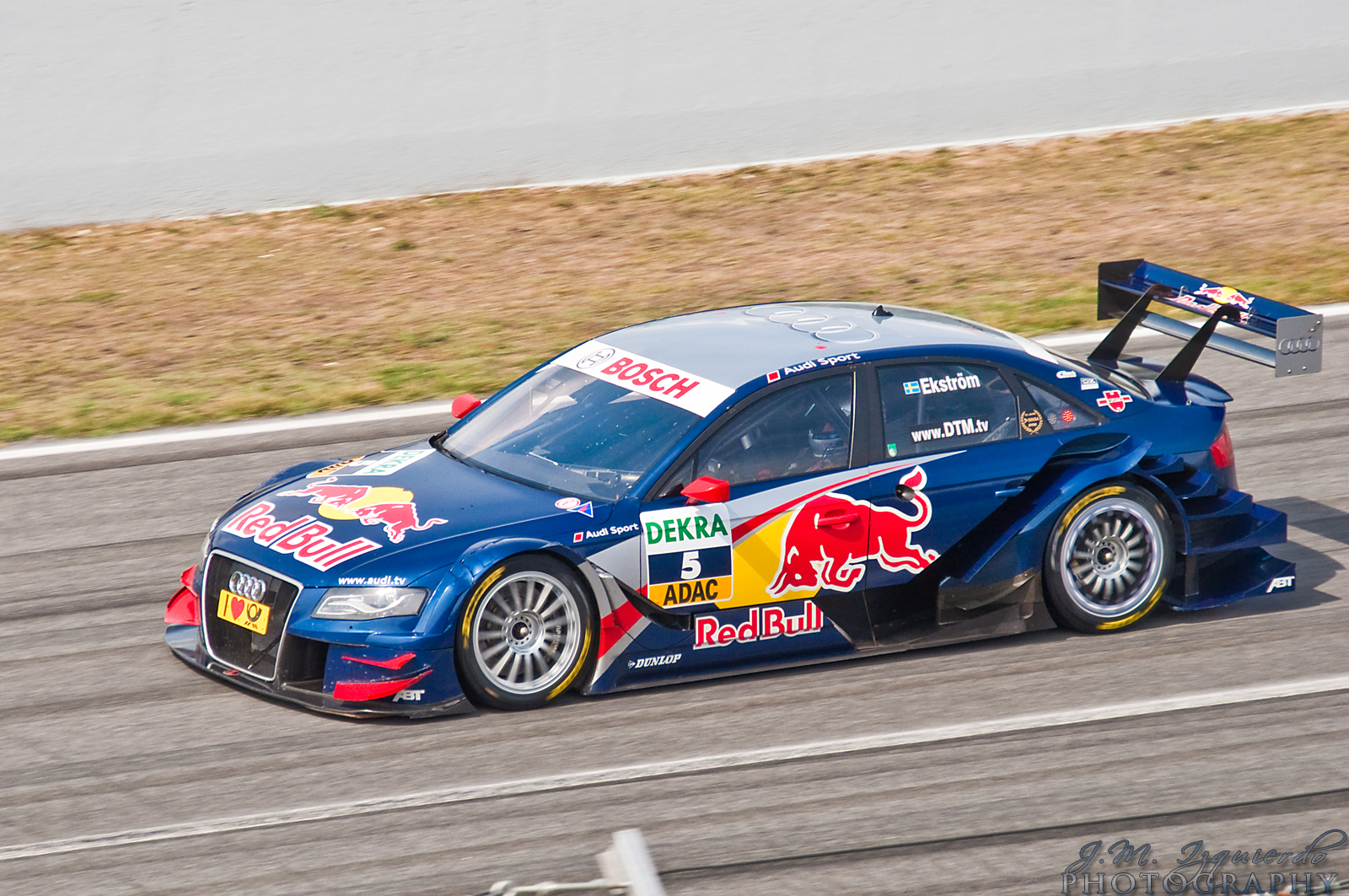 Photo of Audi A4 Abt Sportsline in 2009.